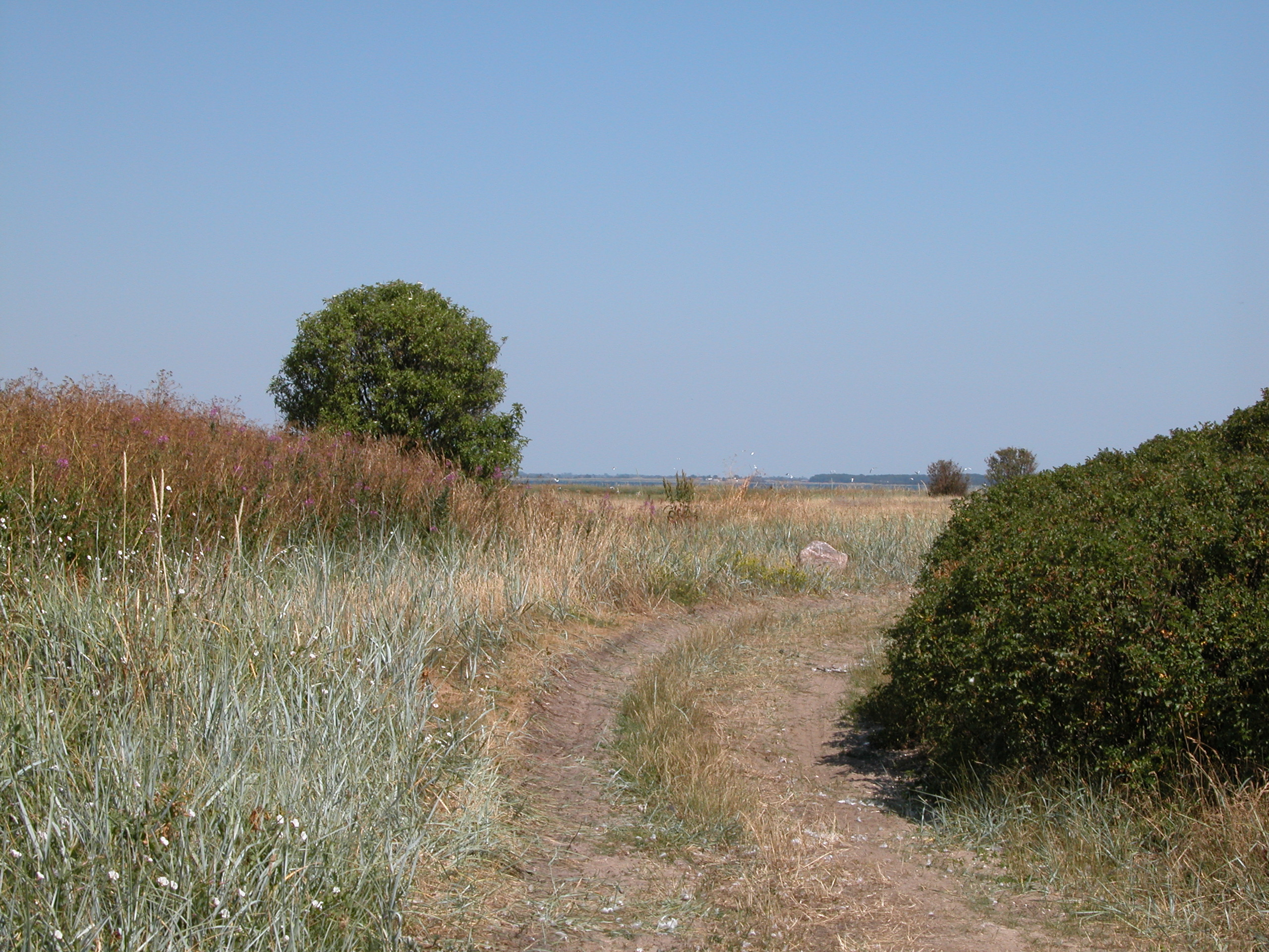 Hjarnø. Horsens Fjord, Denmark